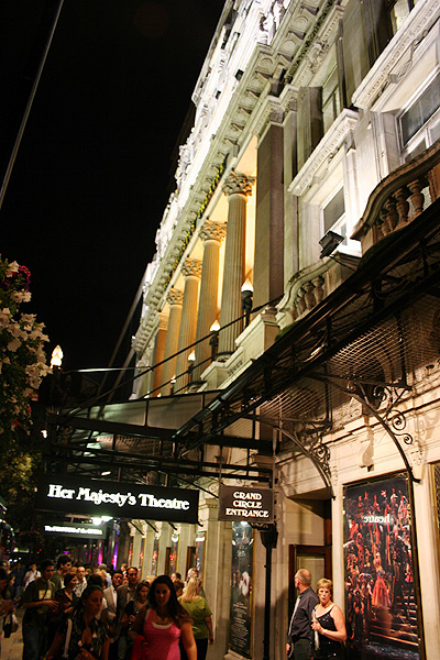 Her Majesty's Theatre in London